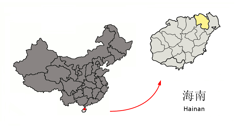 Location of Haikou Prefecture (yellow) within Hainan province of China Map drawn in september 2007 using various sources, mainly : Hainan Counties map from